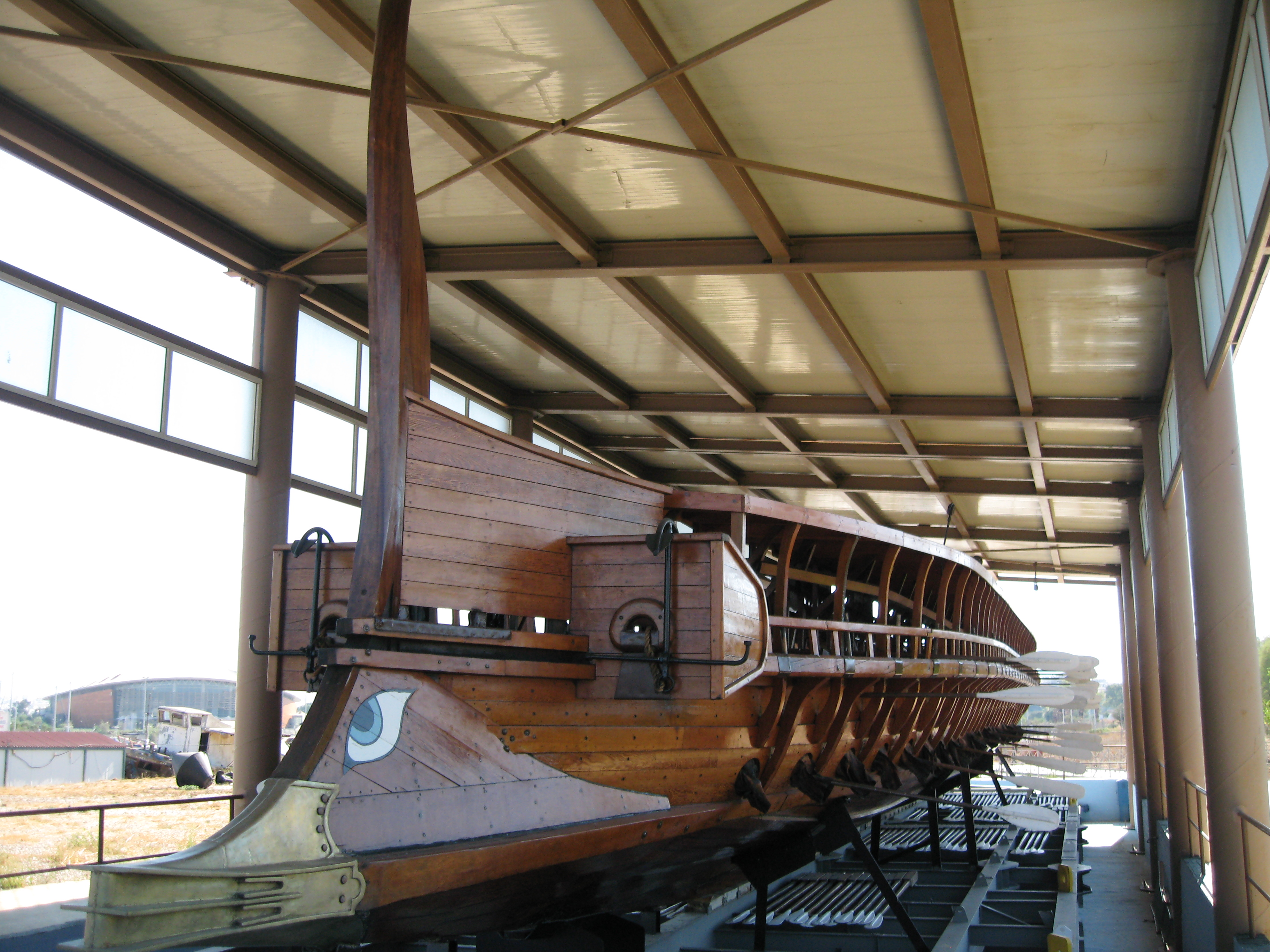 Trireme Olympias: conjectural reconstruction after the work of J.S. Morrison, J.S. Coates and F. Welsh. Now at the Paleon Faliron Museum of ancient marinery